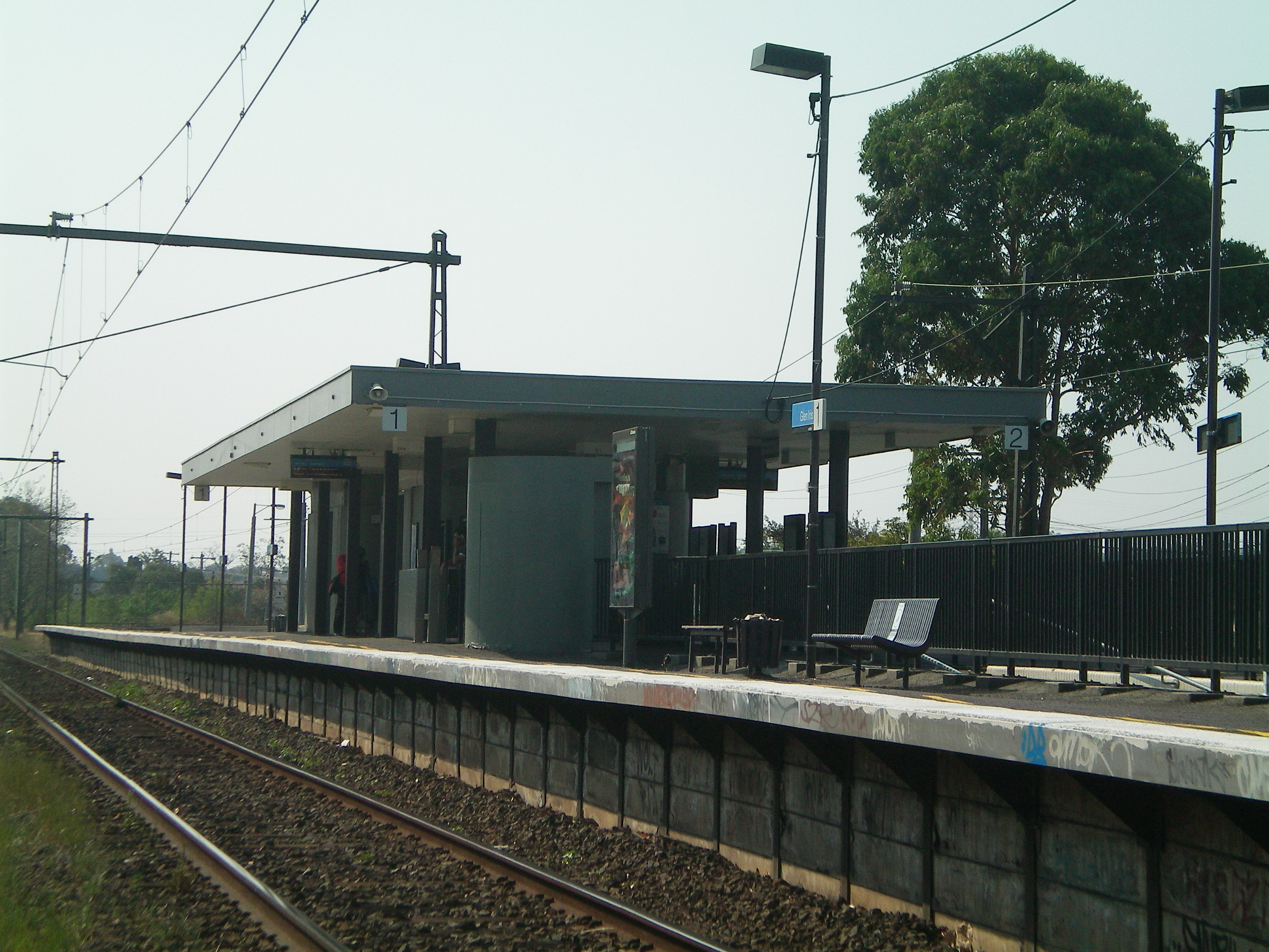 Glen Iris railway station.